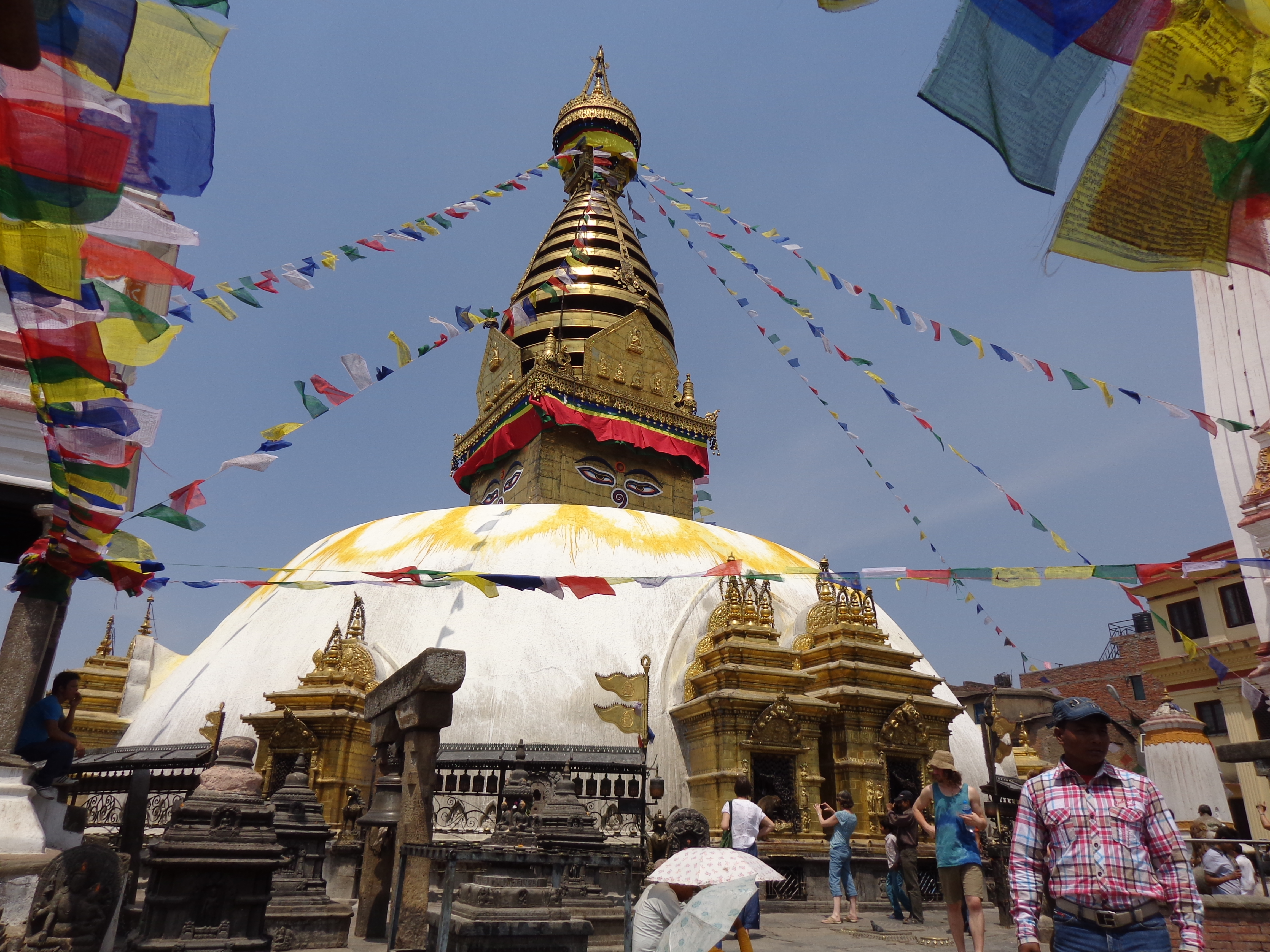 Swayambhunath Stupa (3)